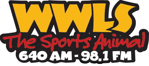 Former logo of the radio stations WWLS-FM and WWLS-AM used from 9 July 2008 through 2 April 2012.